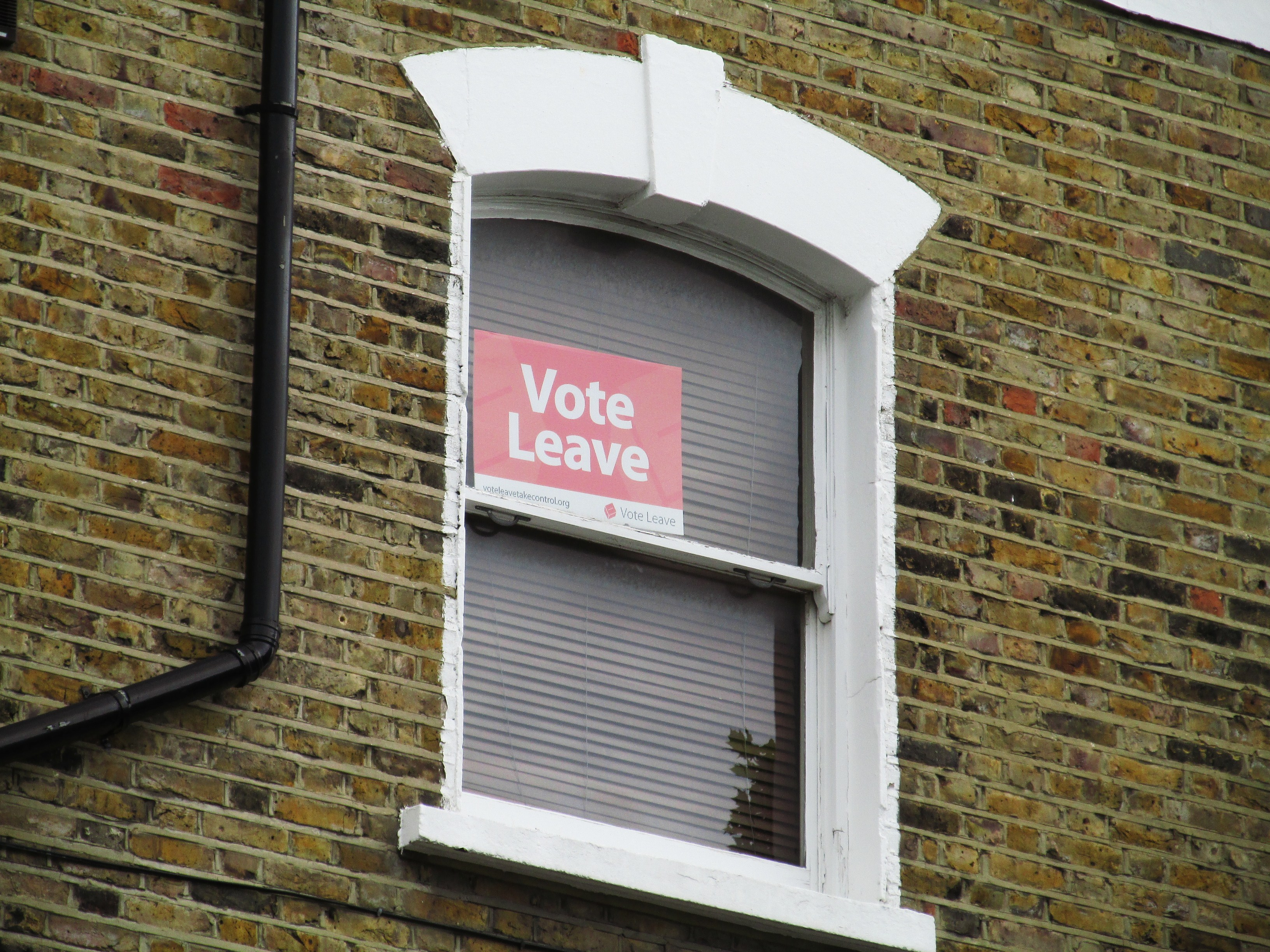 Brexit "Vote Leave" in Islington, London June 13 2016